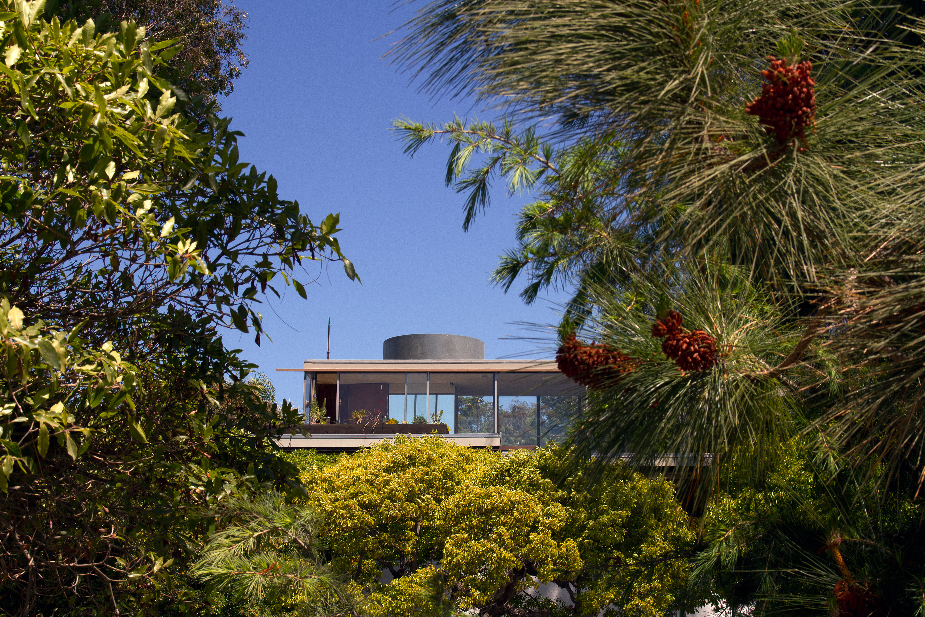 View from Silver Lake Boulevard